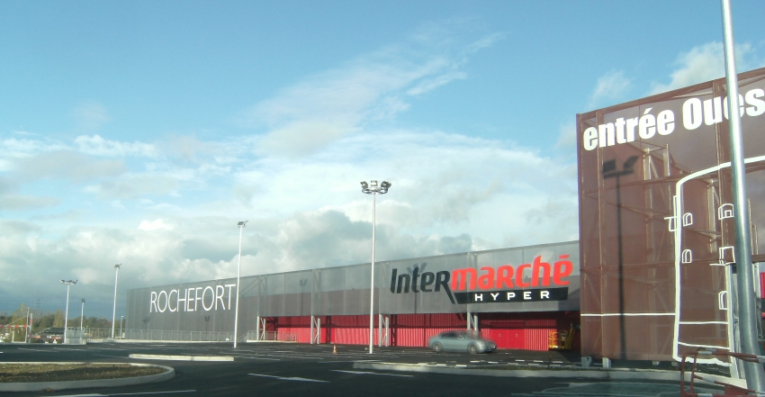 Zone Commerciale Quatre Ânes de Rochefort